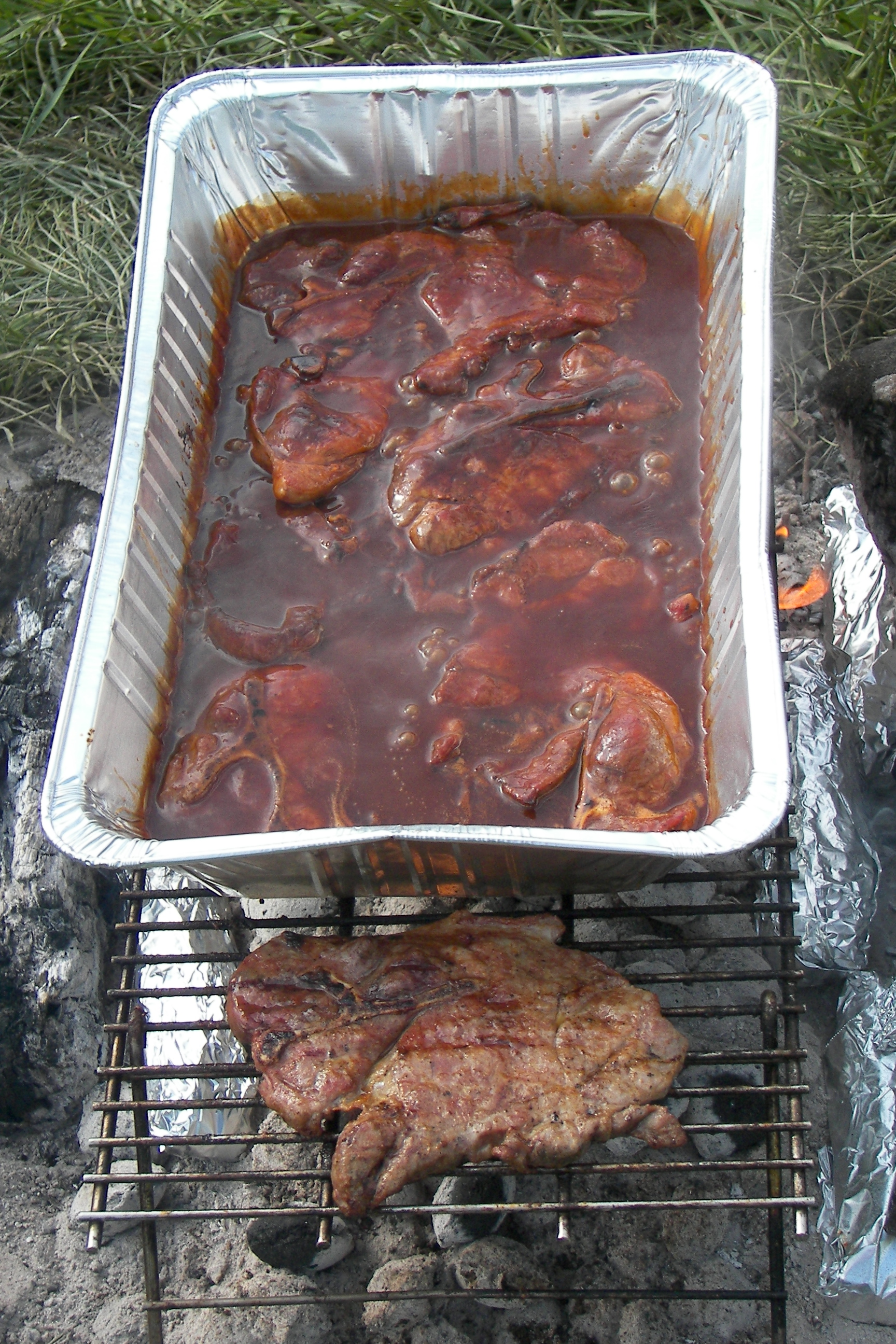 Pork steaks cooking over a charcoal fire